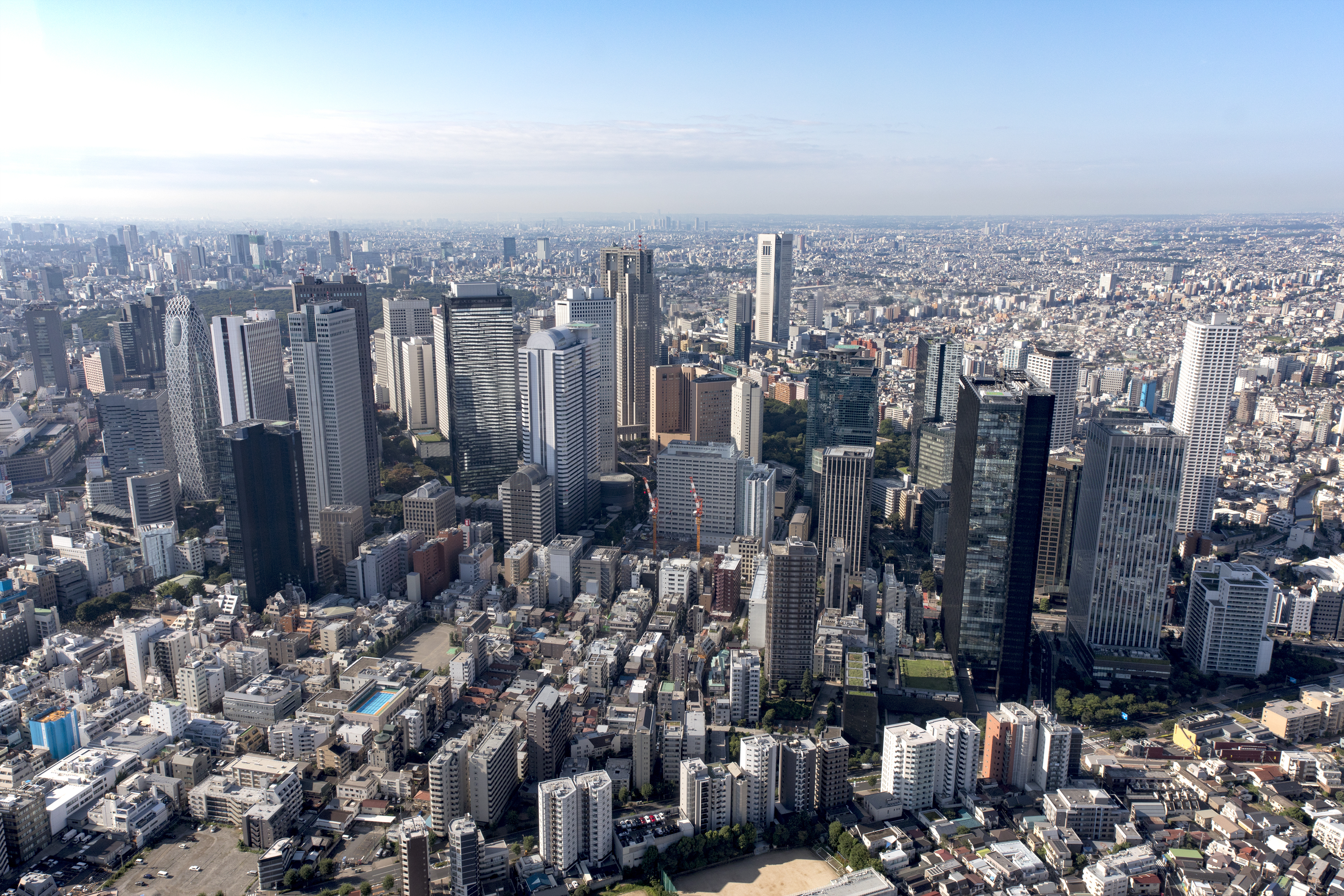 An aerial view of Shinjuku’s skyscraper district from a UH-1N Iroquois assigned to the 459th Airlift Squadron, Sept. 3, 2017, during the Tokyo Metropolis Comprehensive Disaster Prevention Drill. Shinjuku is a special ward in Tokyo, Japan. It is a major commercial and administrative center for the government of Tokyo. The ward has an estimated population of 337,556.